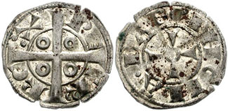 Spain, Aragon. Pedro II el Católico (the Catholic). 1196-1213. AR Dinero (19mm, 0.83 g, 1h). Barcelona mint. Struck 1213. PE-TR RE-:X:, voided long cross pattée, annulets in quarters •BARQINONA, small pierced cross pattée. Botet 161; Crusafont 144; ME 1707; Burgos 852. Good VF, minor encrustation